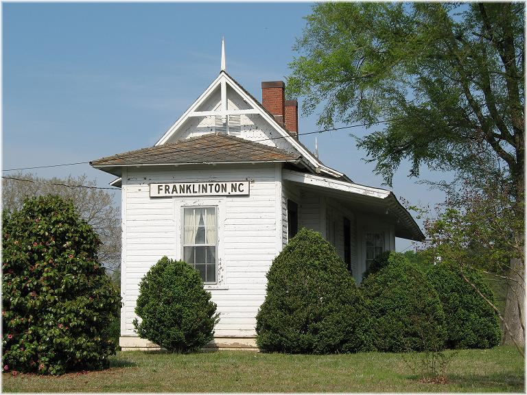 A photo of the Franklinton Depot in Franklinton, North Carolina.